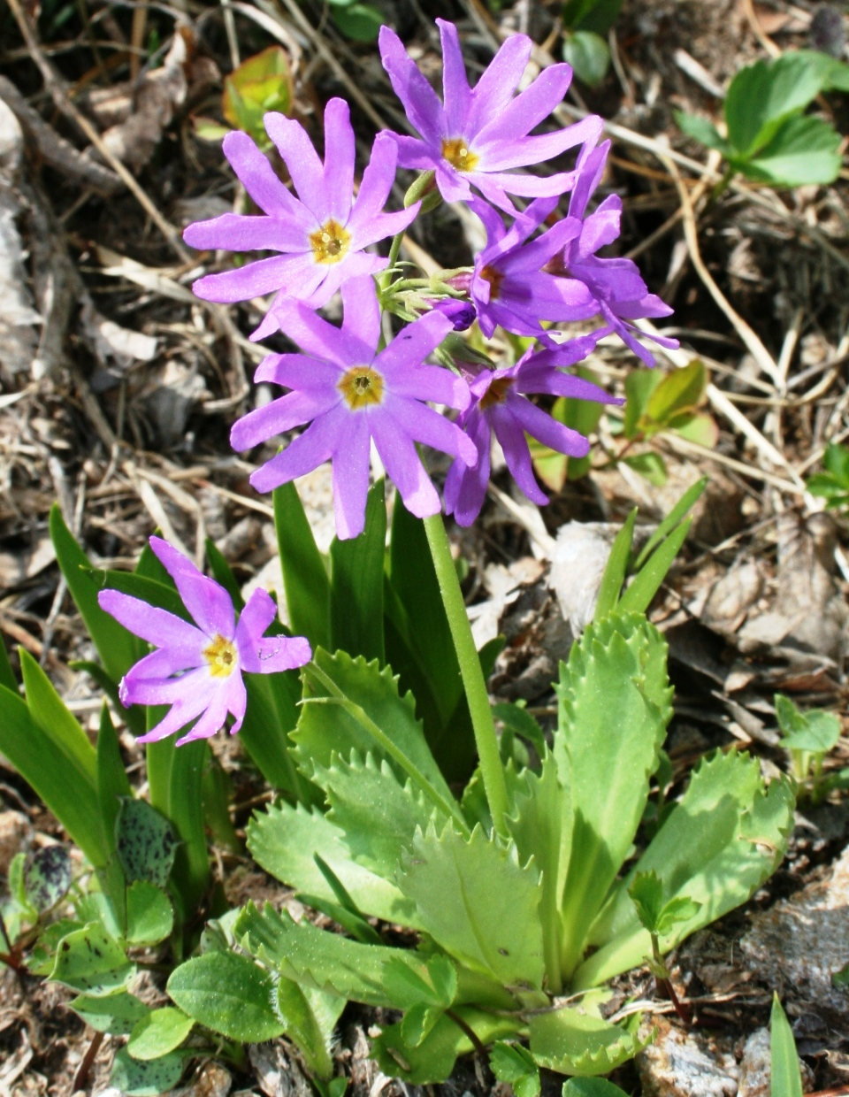 Primula cuneifolia in Bessan, in Ryōhaku Mountains, Japan.